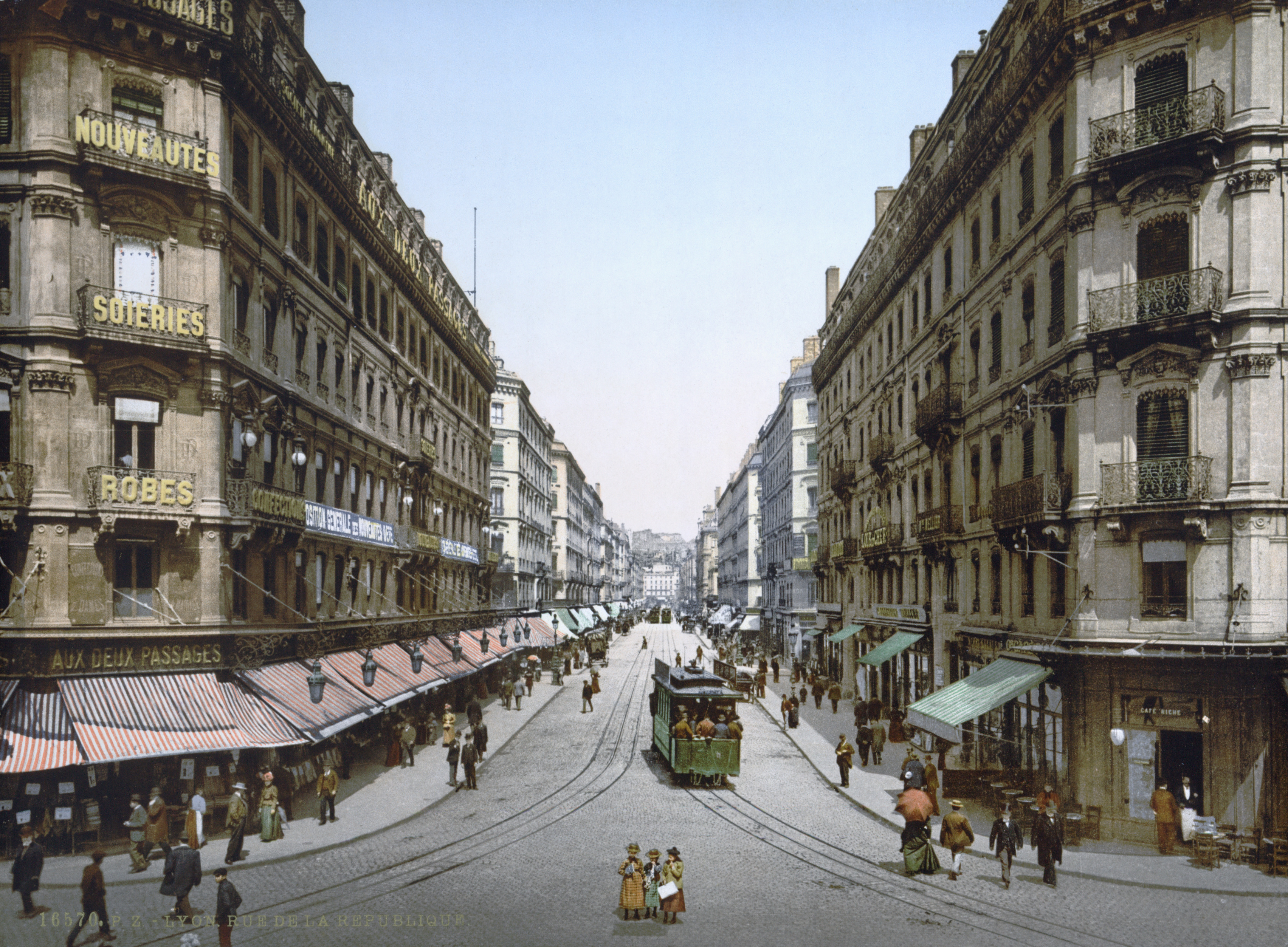 Rue de la Republic, Lyons, France